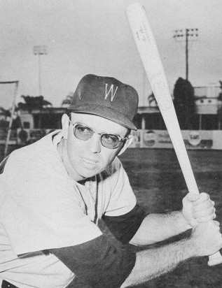 Professional baseball player Herb Plews